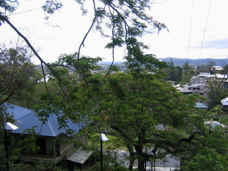 Highgate Hill